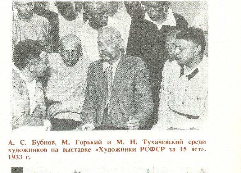 Andrei Bubnov, Maxim Gorky and Mikhail Tukhachevsky at art exhibition, 1933.